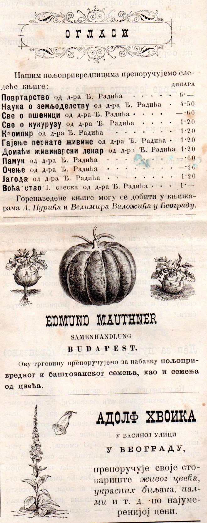 Journal Domacin, 1890, No 1, page 8 Srpski (latinica): Oglasi u časopisu Domaćin iz 1890. godine, broj 1, strana 8